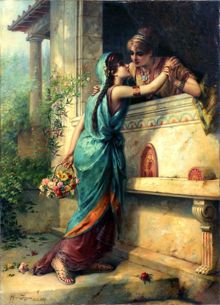 Two young Italian women meeting at a window, standing figure holding a floral basket